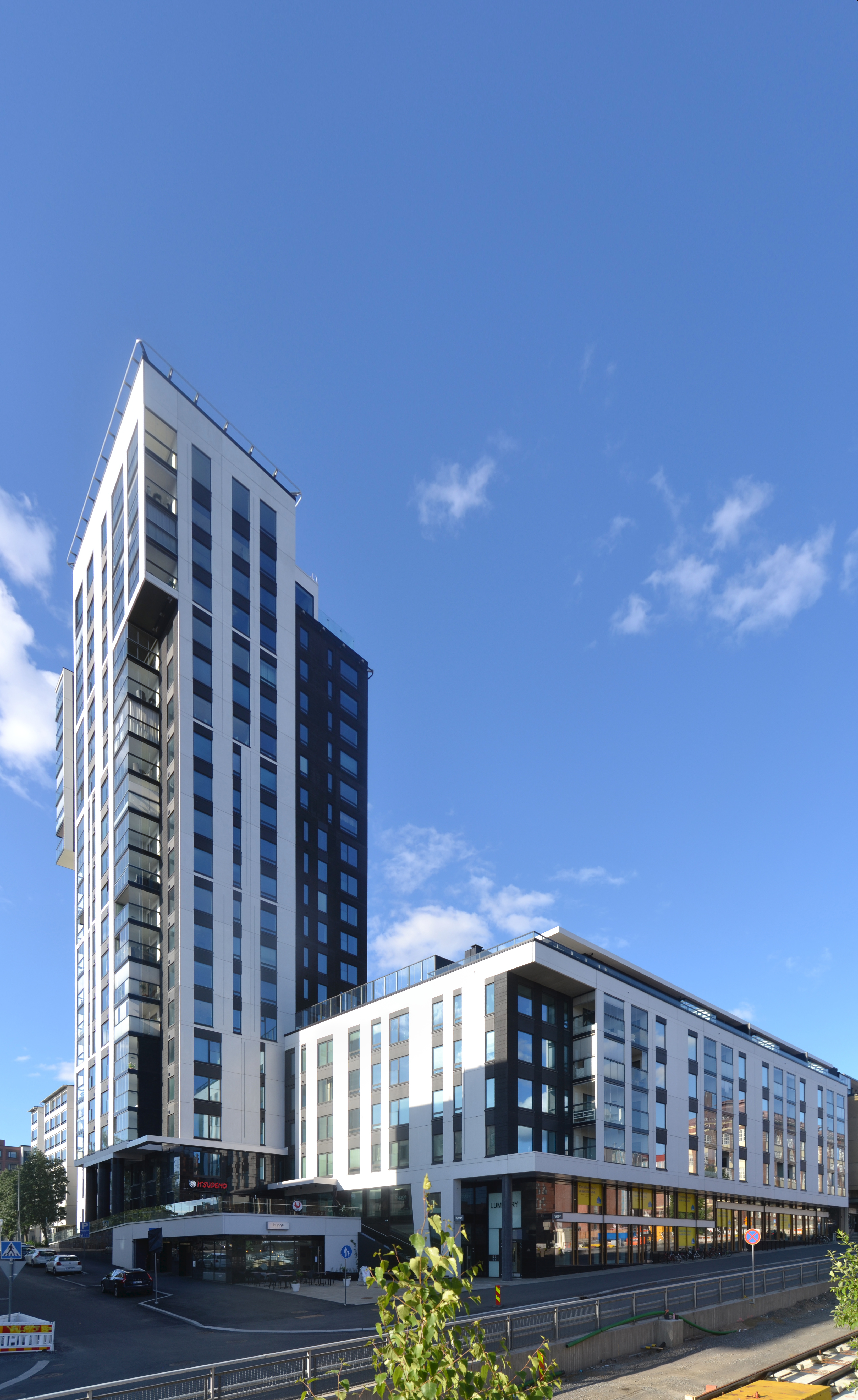 Luminary high-rise in Tampere, Finland